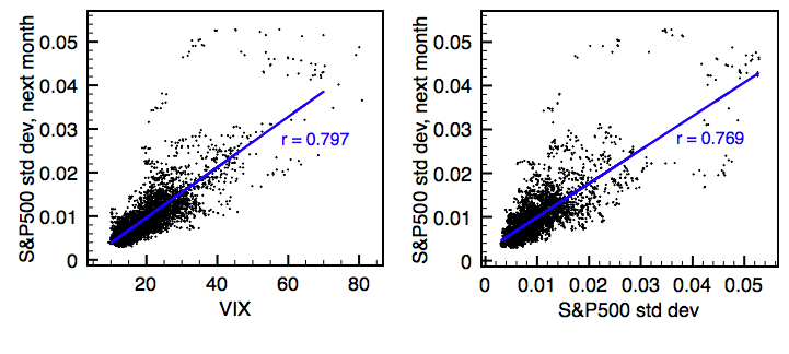 Performance of the VIX index as a volatility predictor